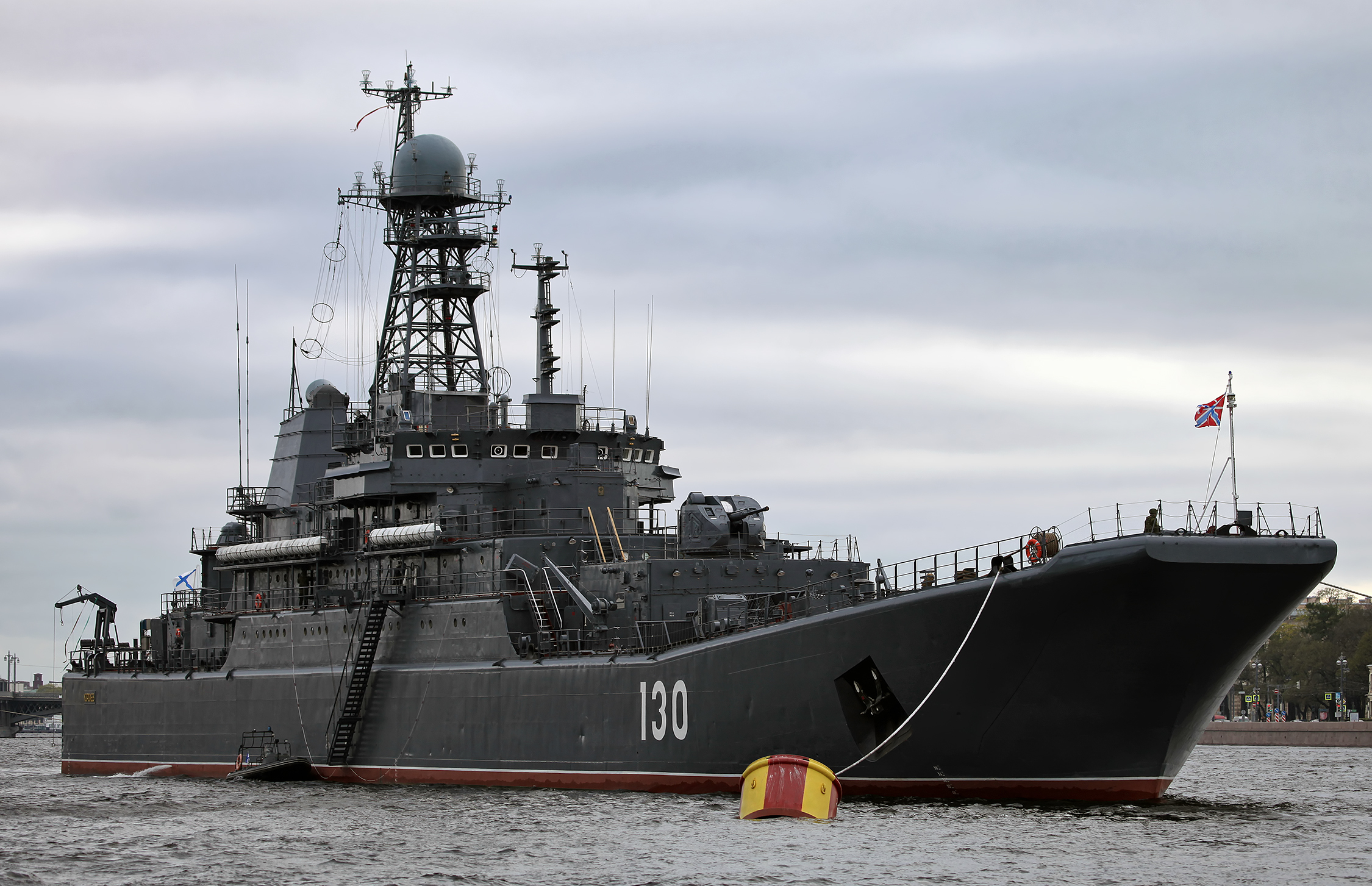 Project 775 landing ship Korolev